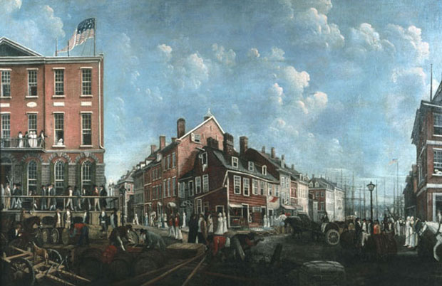 1797 oil on linen of the Tontine Coffee House, Merchant's Coffee House, and Wall Street, leading down to the East River. By Francis Guy (1760–1820).